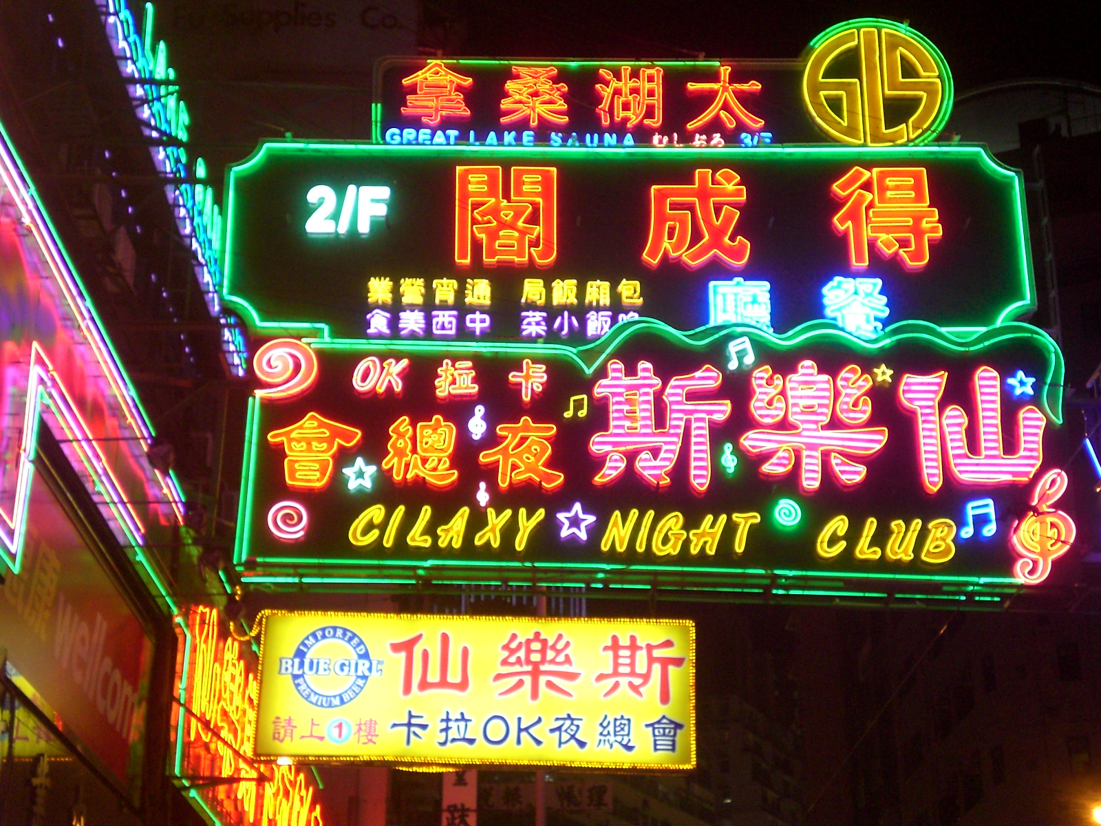 莊士敦道, 夜總會, Some HK style nightclubs are running in Johnston Road, Wan Chai, Hong Kong